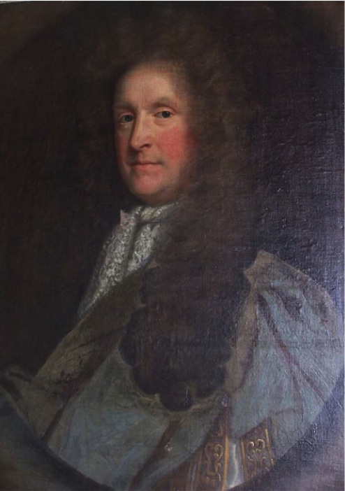 William Palmes of Lindley was MP for Malton 1678-1713